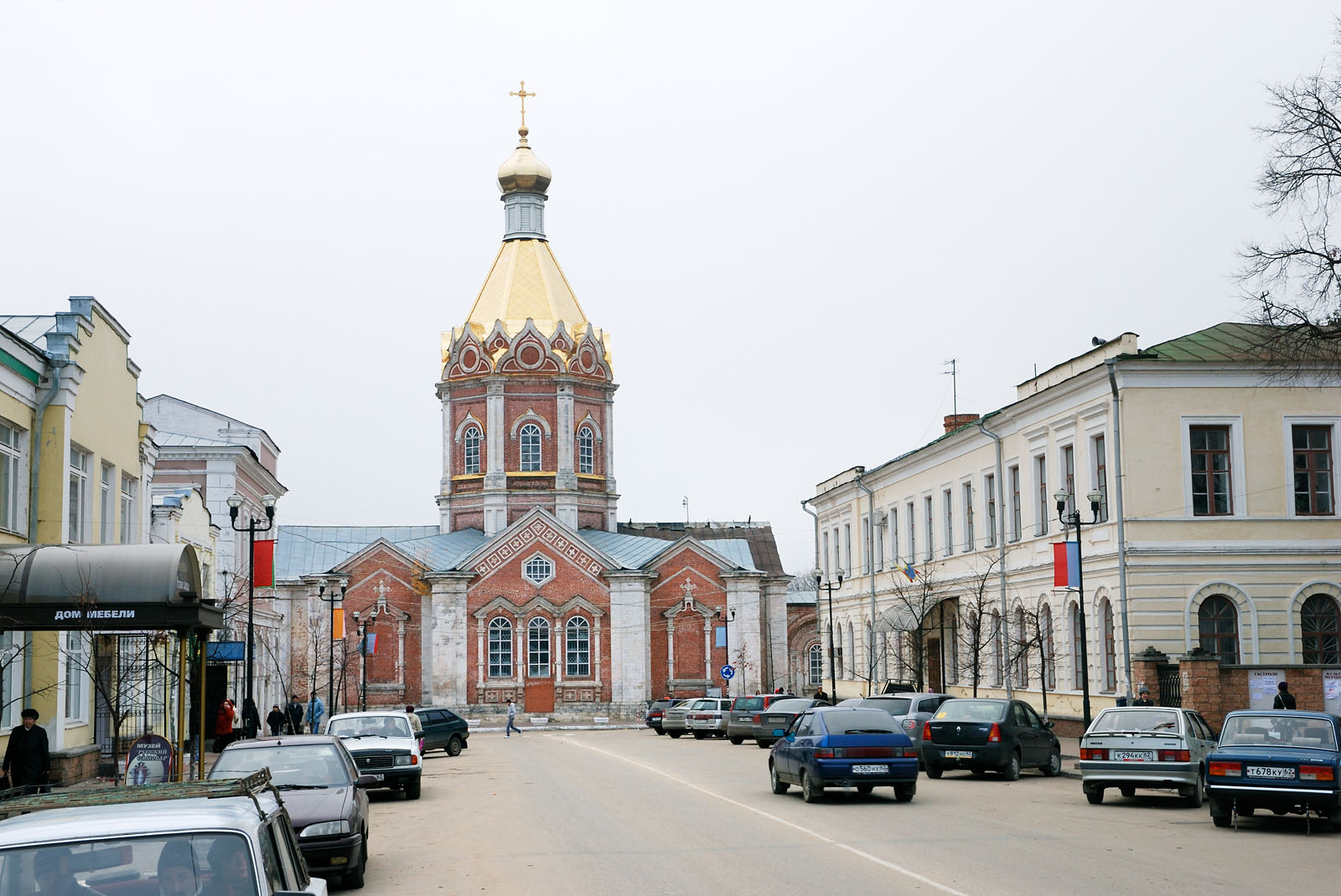 Central street of Kasimov